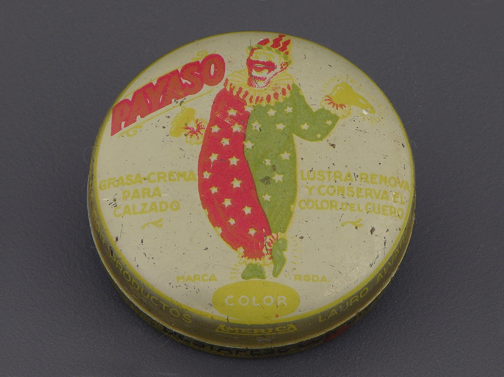 Payaso shoe polish metal case with lid mid 20th century